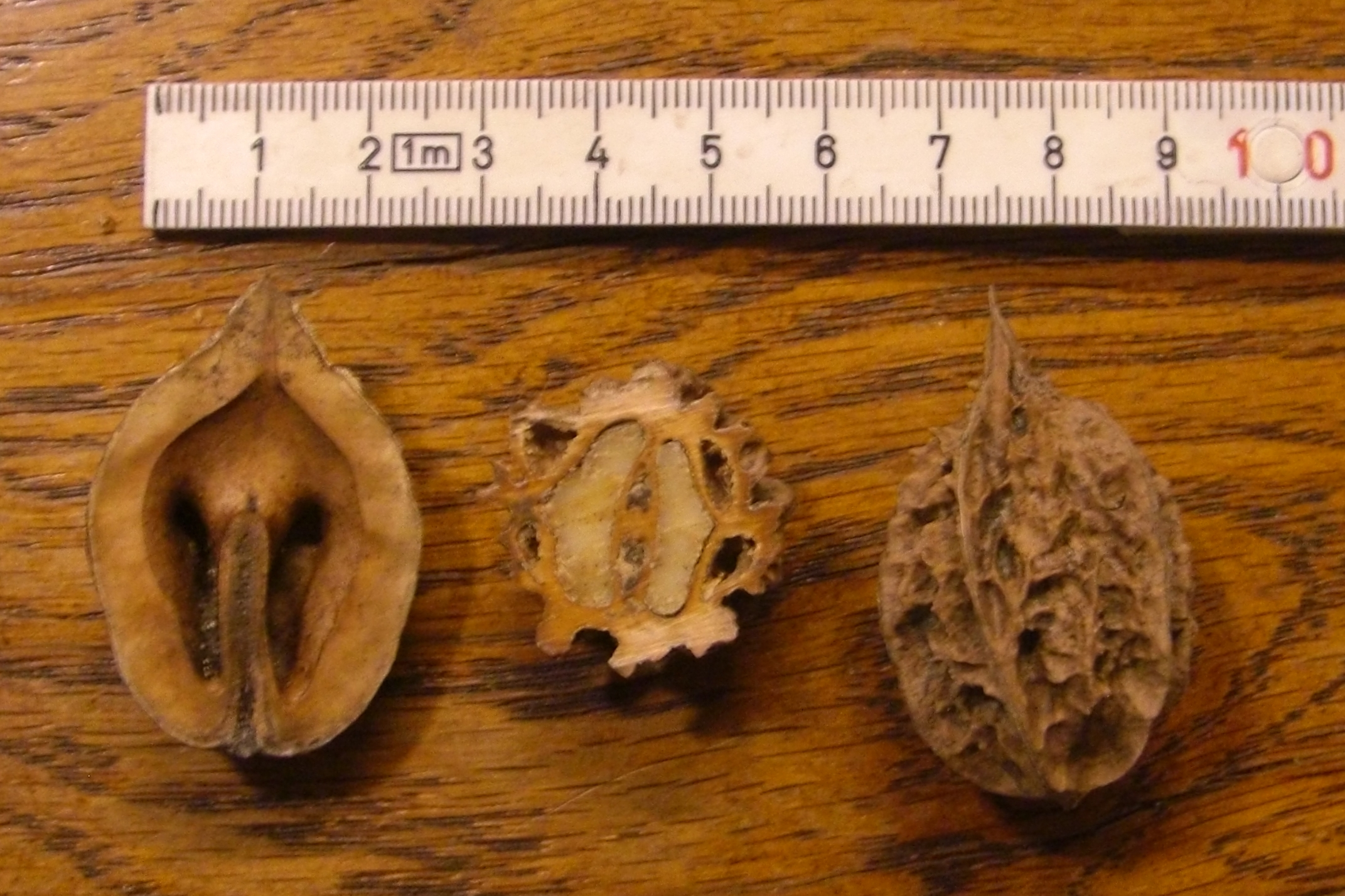 Nutshell of a mandshurian walnut tree in front of the coach house of Cīrava Palace, Latvia.